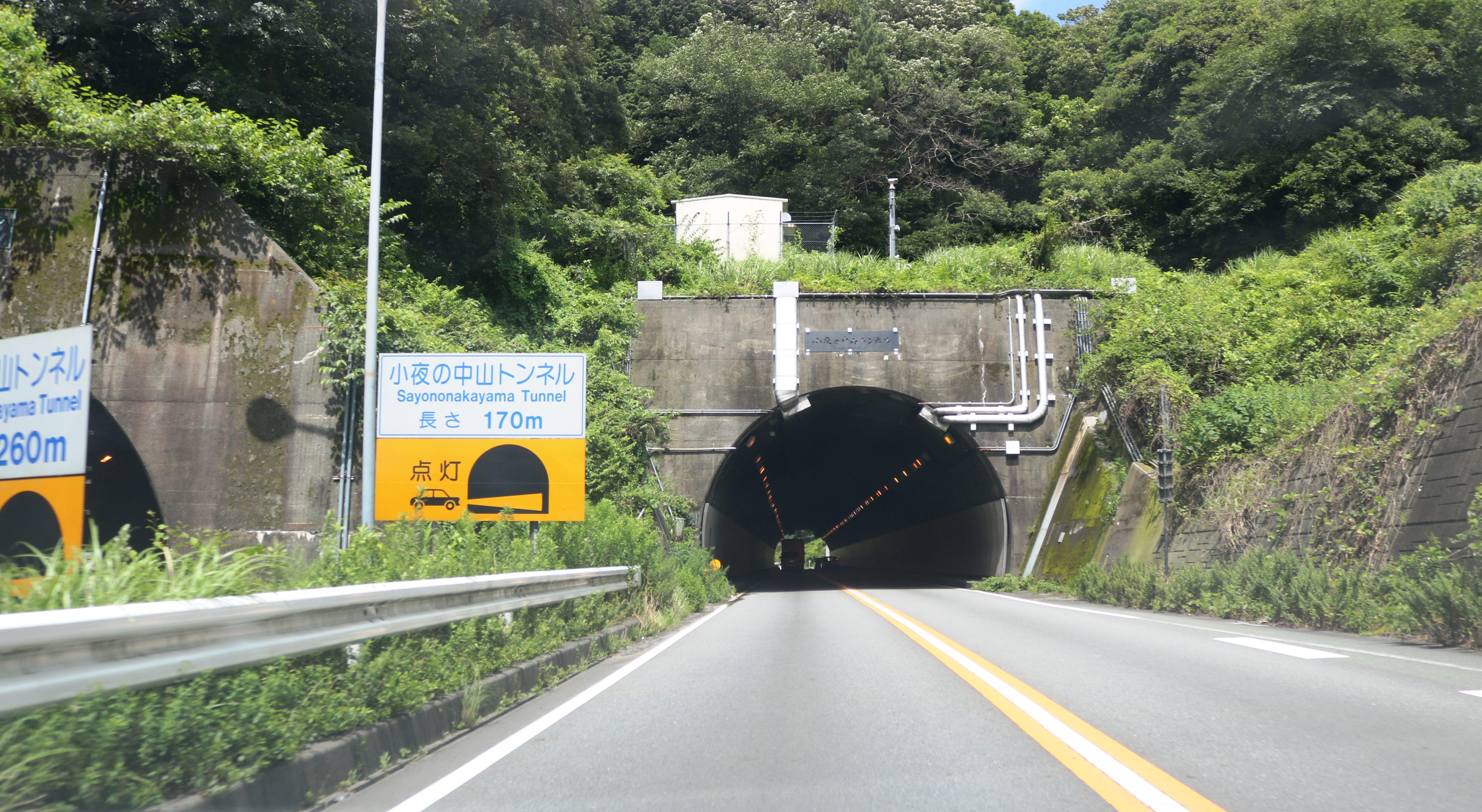 Sayononakayama Tunnel of Shimadakanaya Bypass (Route 1) in Sayoshika, Kakegawa, Shizuoka Prefecture, Japan.